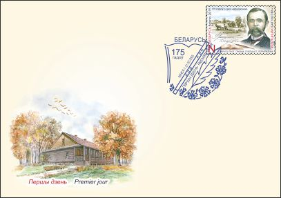 175th birth anniversary of Francišak Bahuševič.